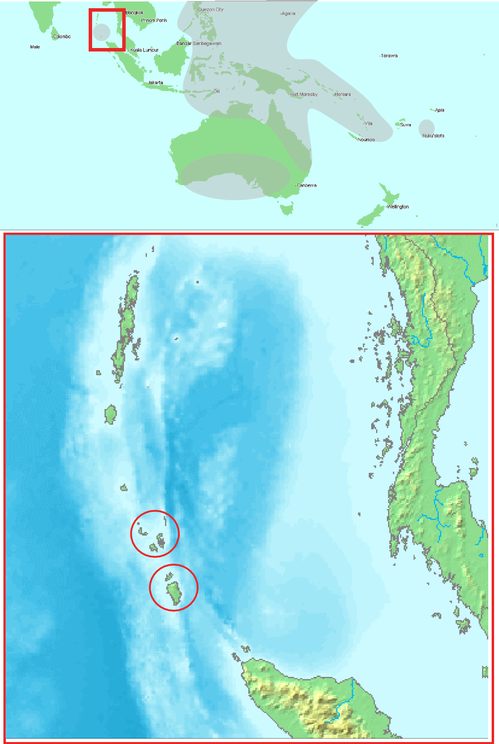 Map showing distribution of Nicobar megapode in relation to other megapodes